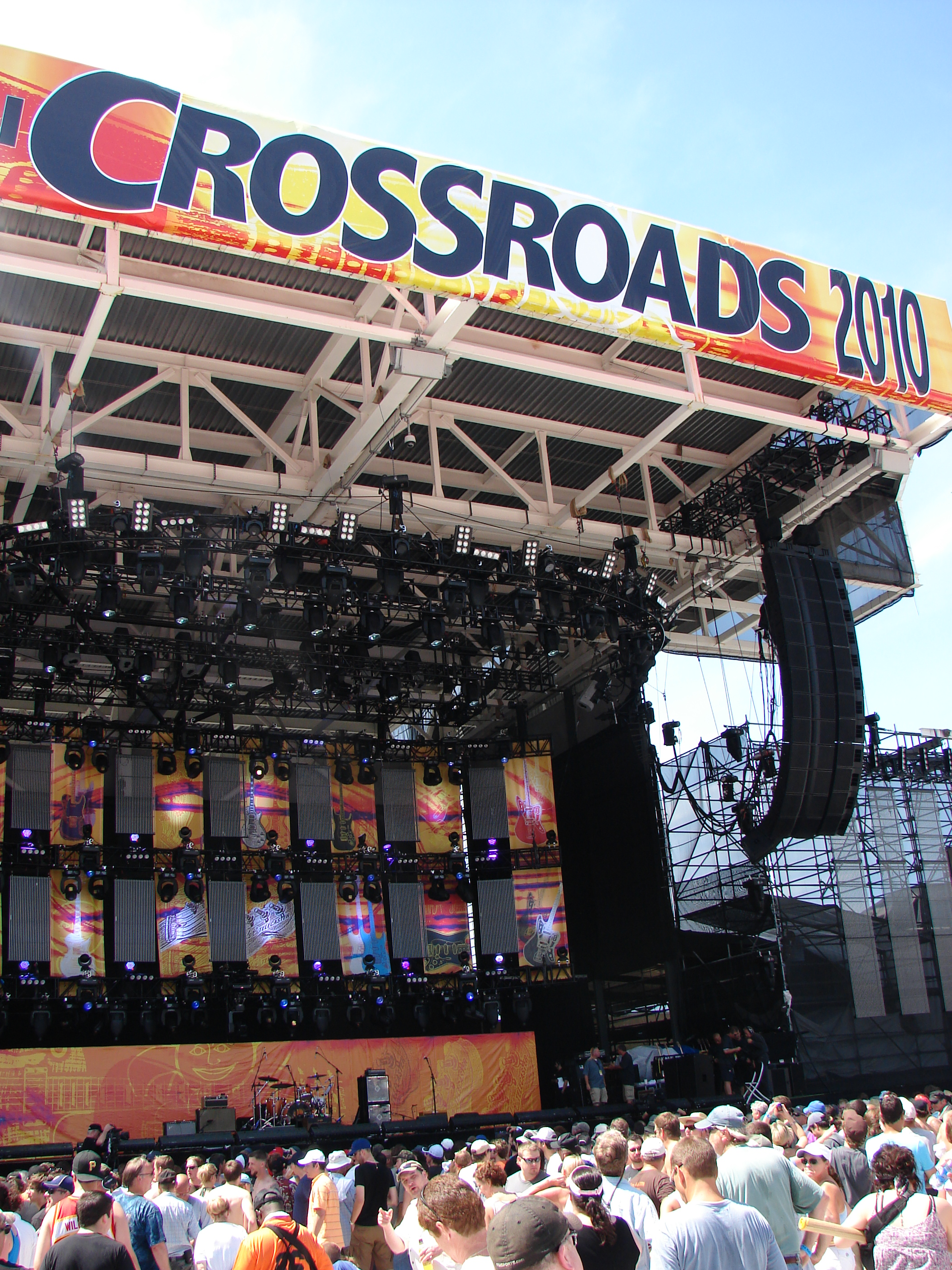 Crossroads stage